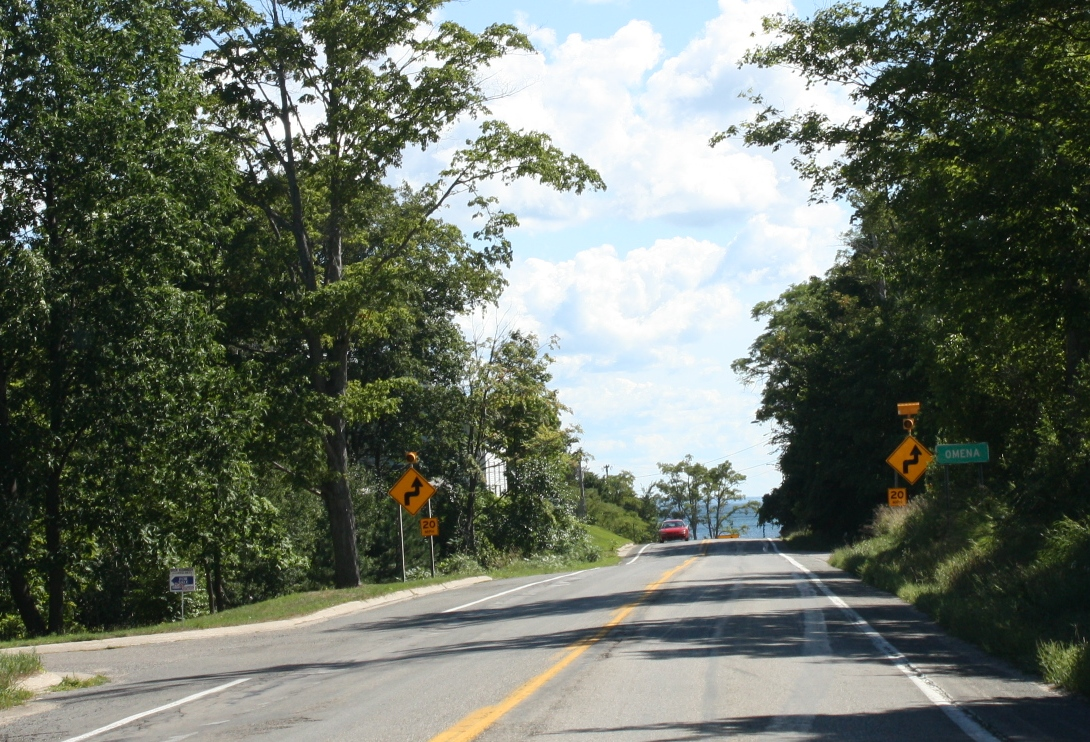 The sign for Omena, Michigan on M-22 (Michigan highway).